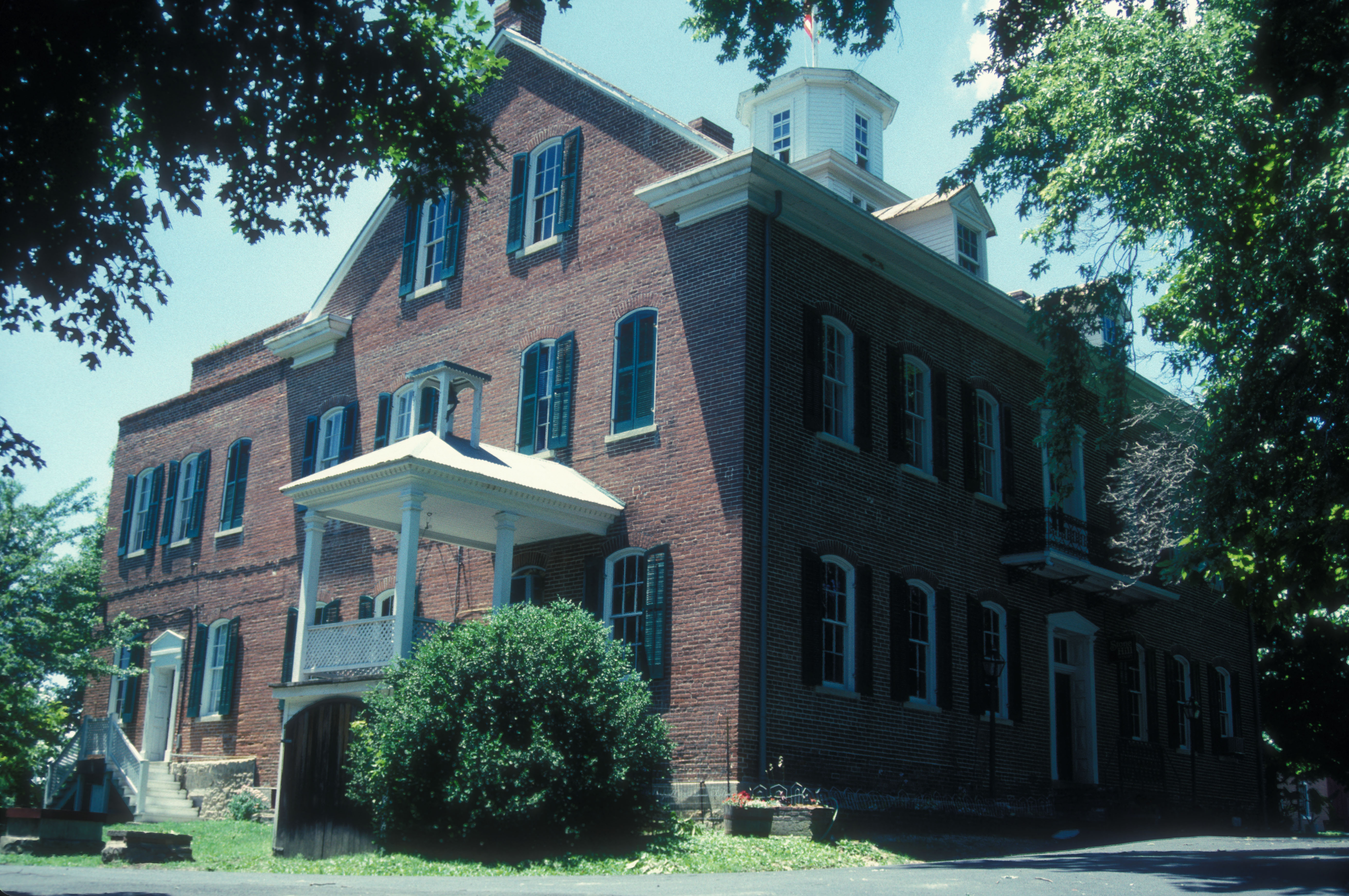 STONE HILL WINERY - OPENED IN 1847; BY THE TURN OF THE CENTURY IT HAD BECOME THE THIRD LARGEST WINERY IN THE WORLD (SECOND IN THE U.S.). PROHIBITION DESTROYED IT AND THE WINE CELLARS WERE SAVED ONLY BY CHANGING OVER TO MUSHROOM GROWING. IN 1965 THEY BEGAN TO MAKE WINE AGAIN